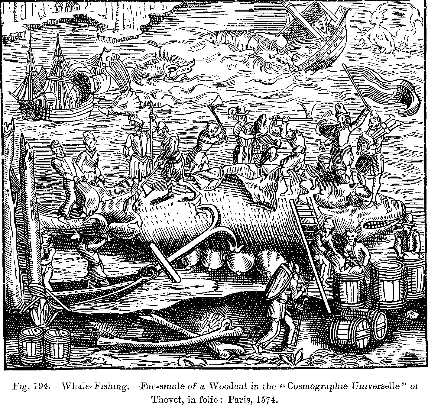 Whale-Fishing. Fac-simile of a Woodcut in the Cosmographie Universelle of Thevet, in folio : Paris, 1574. Project Gutenberg text 10940